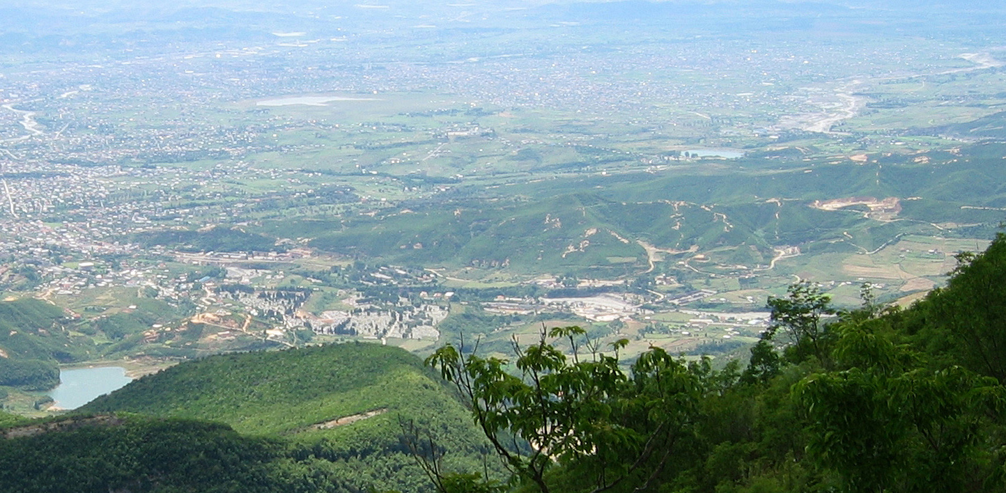 Kamza as seen from Dajti mountain Original description: This is a panoramic picture that I took of Tirana, Albania on July, 14, 2005. It was taken from Dajti Mountain with a Canon Powershot A80, built in Ptassembler with Pano Tools, blended with enblend, and cropped with Photoshop. It has undergone no other editing.